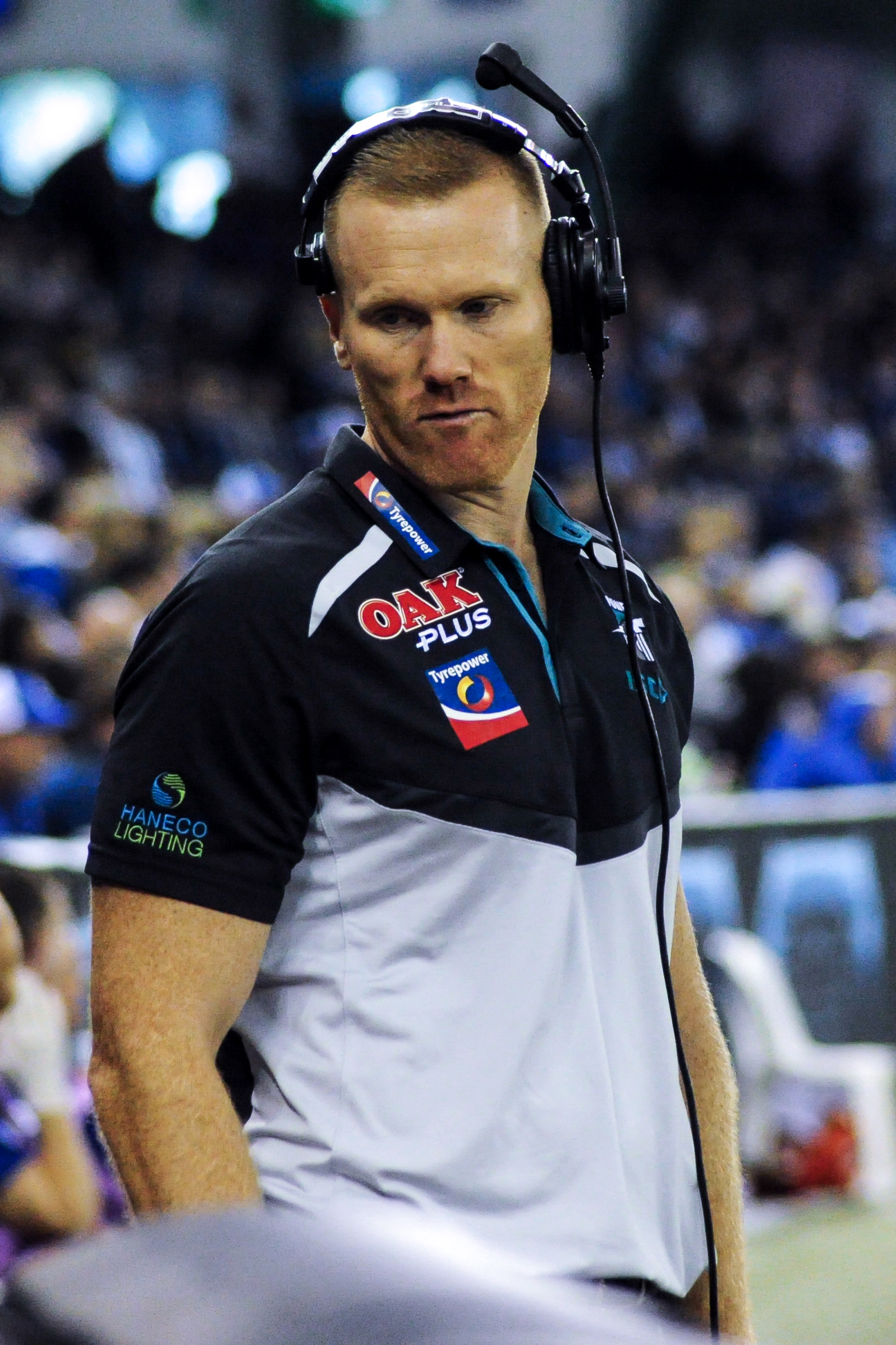 Aaron Greaves during the AFL round six match between North Melbourne and Port Adelaide on Saturday, 28 April 2018 at Etihad Stadium in Melbourne, Victoria.